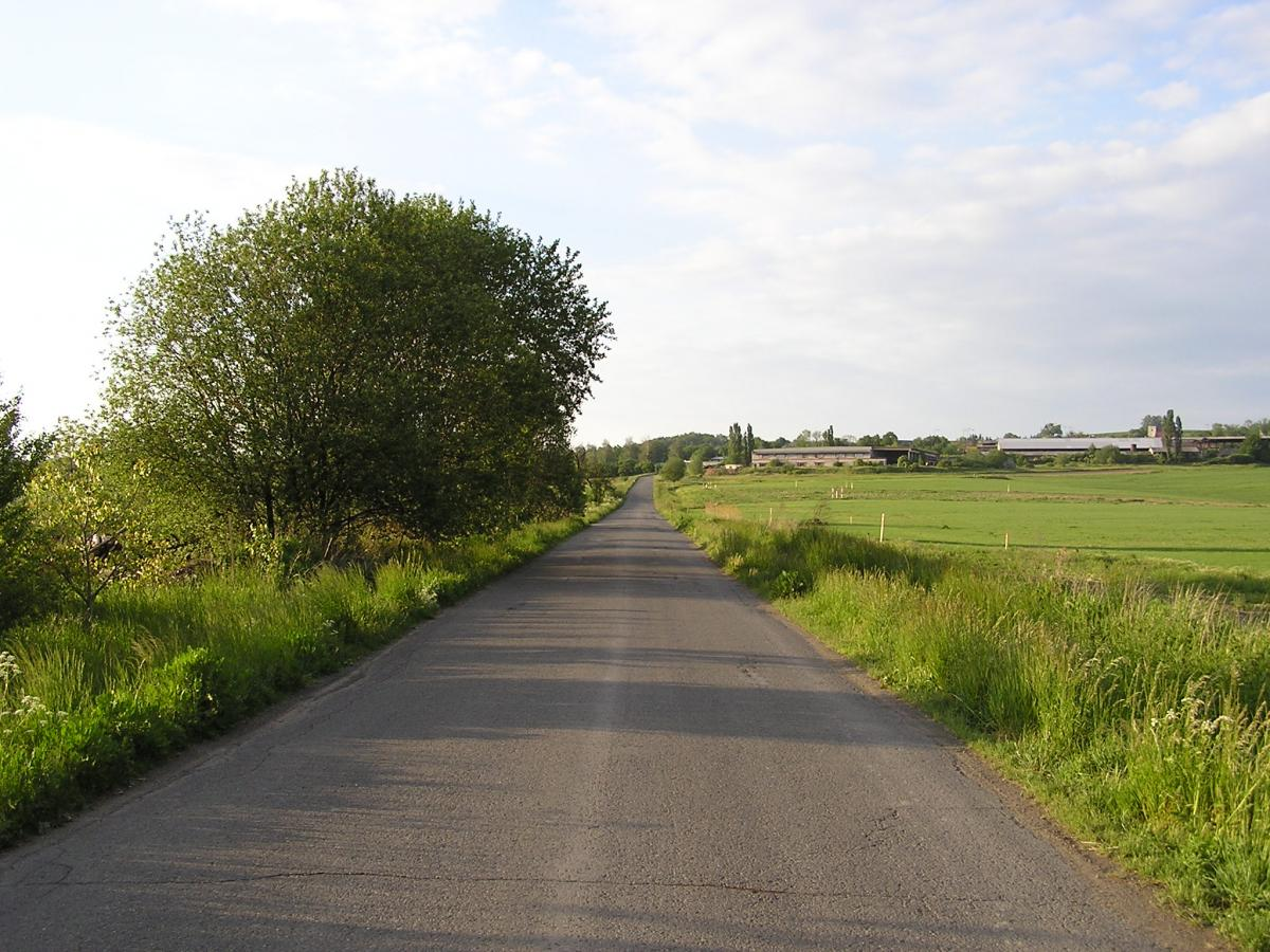 The road from Fulnek to Děrné